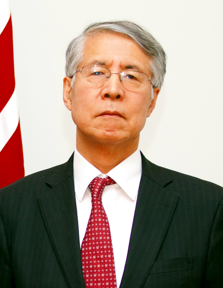 Toshiyuki Taga, Ambassador to Latvia, met Valdis Dombrovskis, Prime Minister, in Latvia on January 9, 2013.